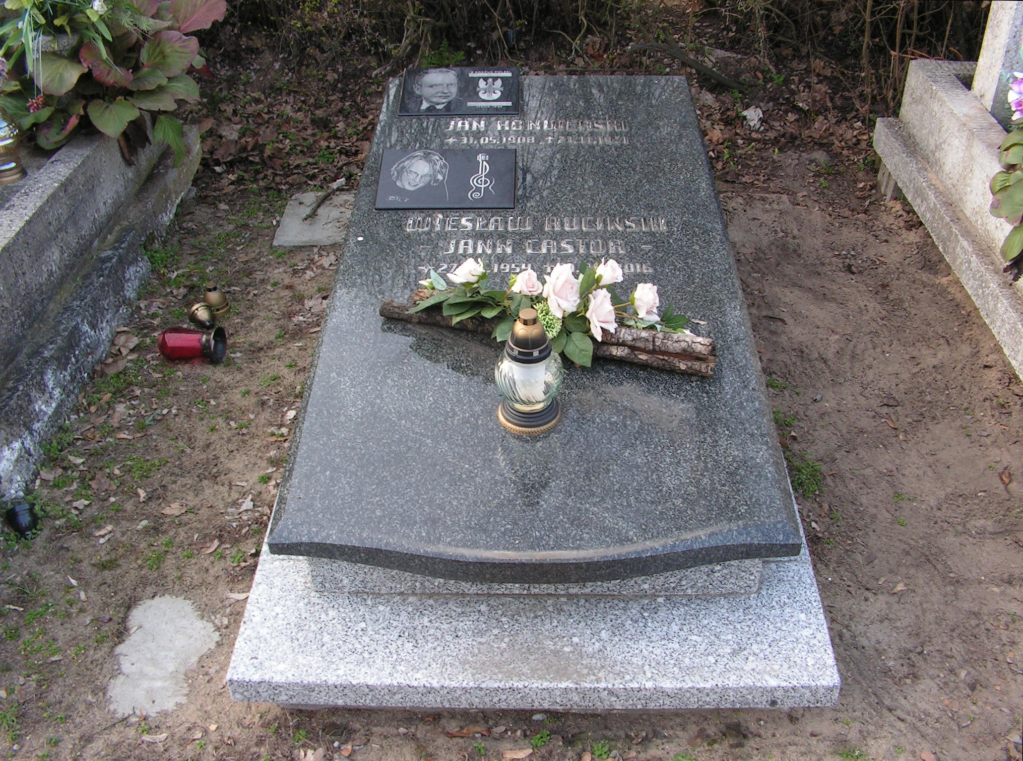 Grave of solider of Ander's Army Jan Konwerski (1908-1971) and Wiesław Ruciński, better knowned as a Jann Castor (1954-2016), musician and poet on Communal Cemetery in Włocławek. Grave is placed close to graves of soviet soliders.